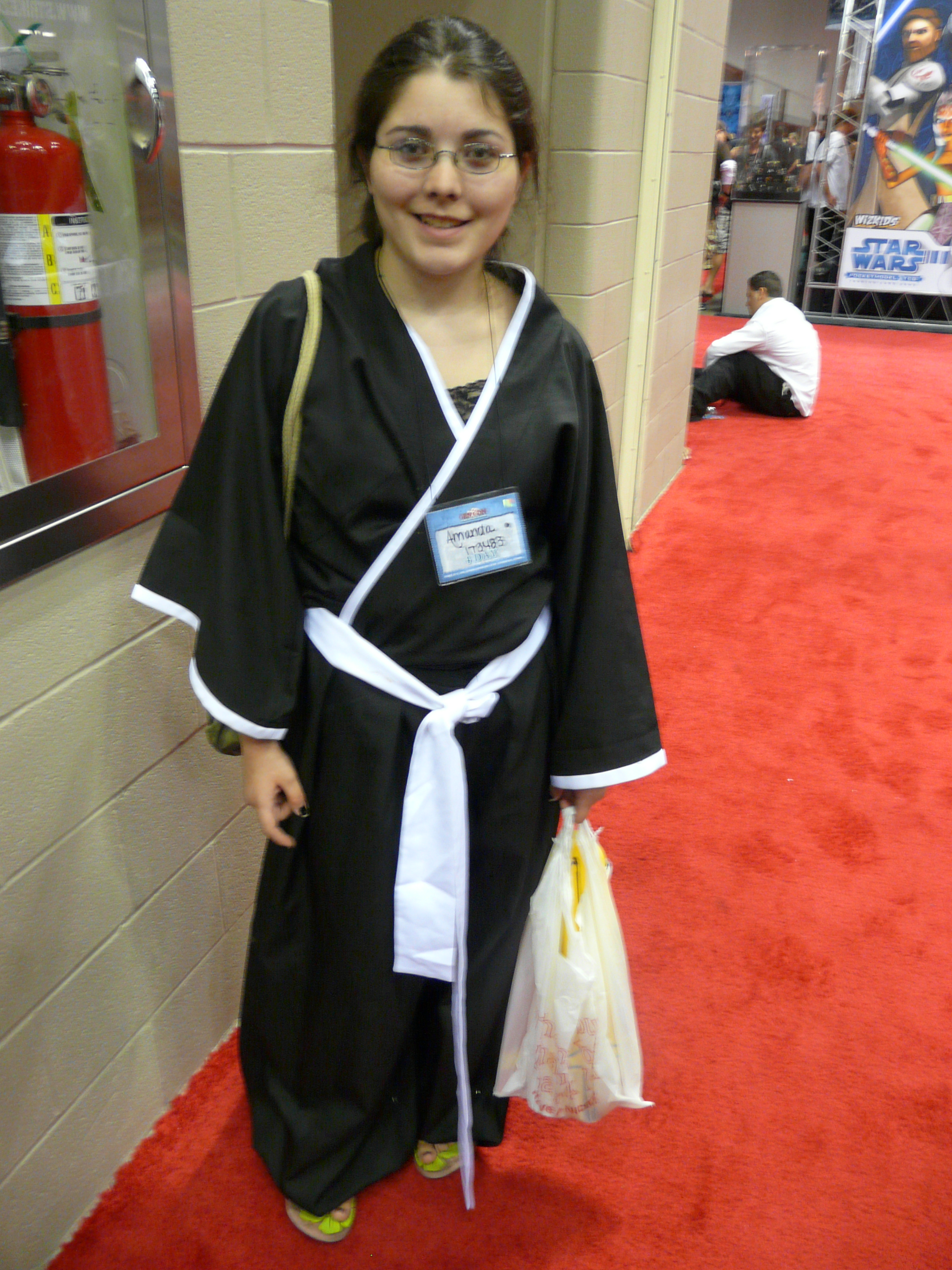 Picture of Gen Con Indy 2008 in Indianapolis, Indiana, USA.